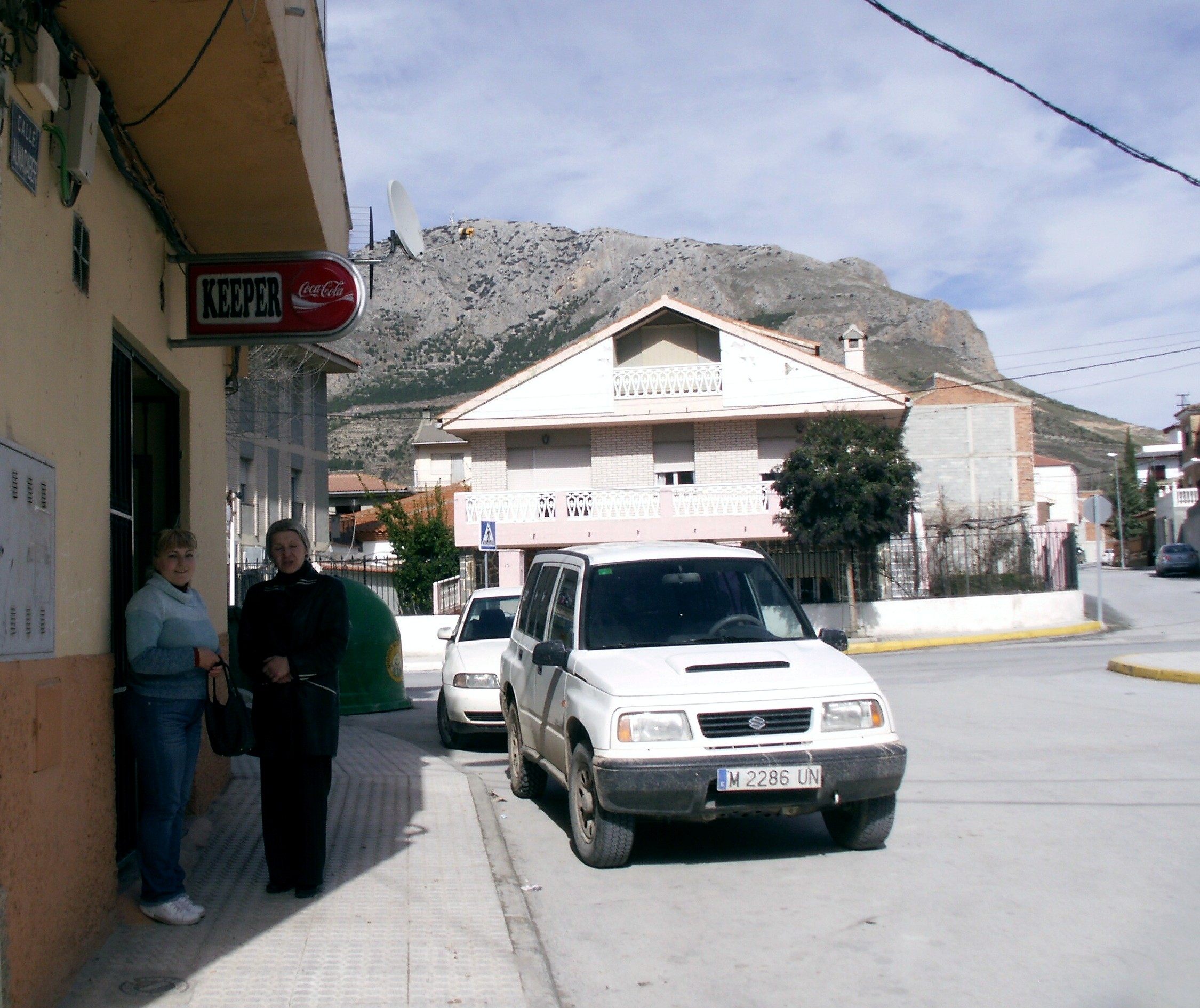 Zújar, Spain